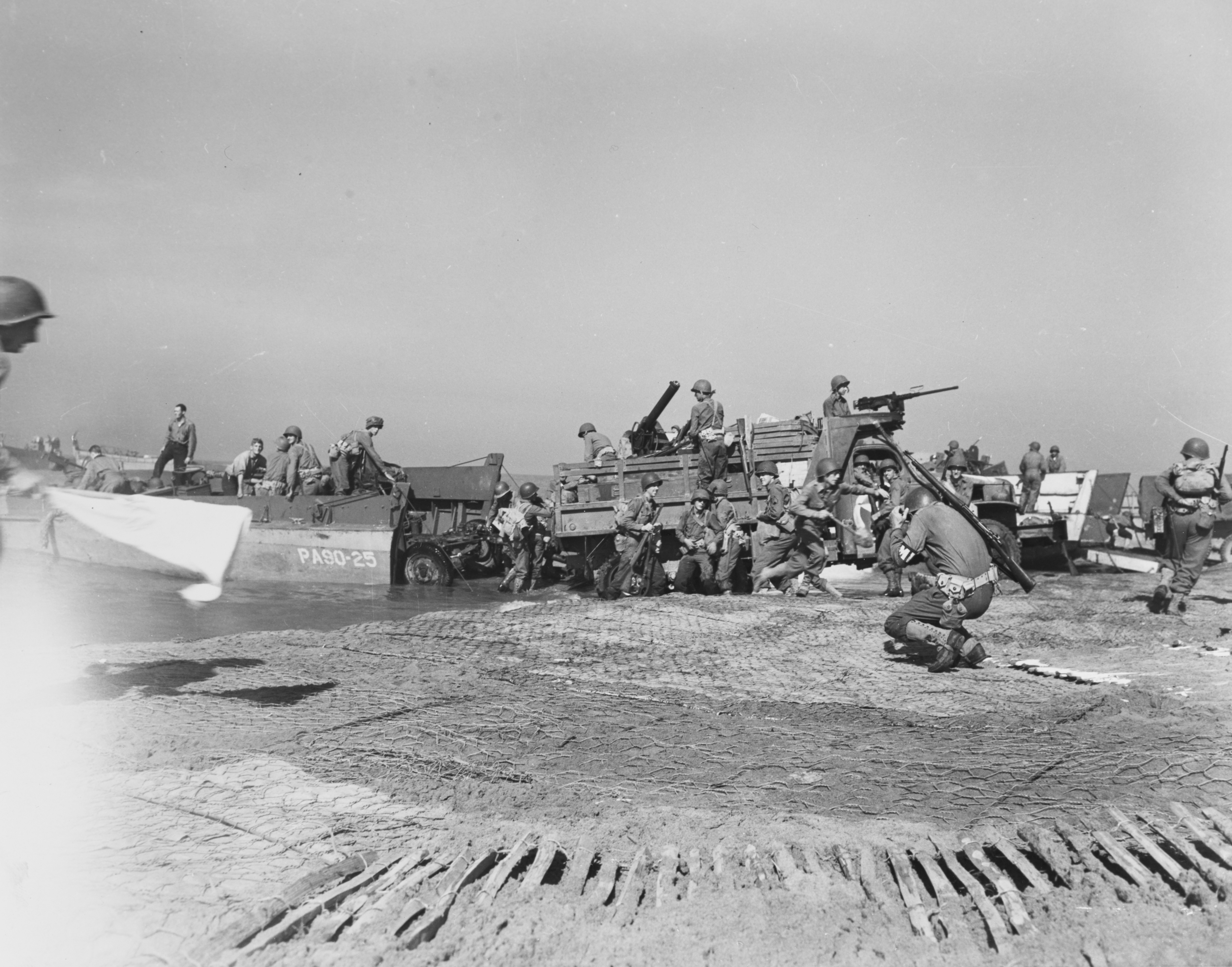 Artillery being landed during the invasion of mainland Italy at Salerno, September 1943. Troops bringing artillery ashore at Salerno in September 1943. The military policeman (MP) in the foreground is ducking from a near-by German shell hit. The LCVP is from USS James O'Hara (APA-90). Note the use of chicken wire to stabilize the beach sand. Official U.S. Navy Photograph, now in the collections of the National Archives and Records Administration, Still Pictures Unit, College Park, MD. Photo Citation Number: 80-G-54600. Official Caption: "American fighting men pour out of their landing ships. The M.P. in the foreground was in the act of instinctively ducking from the blast of a shell from a German 88mm. gun."